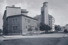 Corrected (flipped) version by Riggwelter